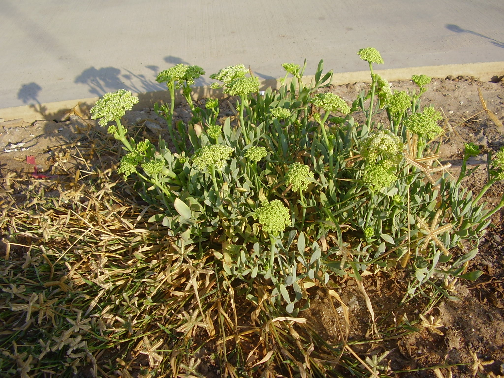 critmum maritimum in tel aviv beach קריתמון ימי בחוף תל ברוך בתל אביב